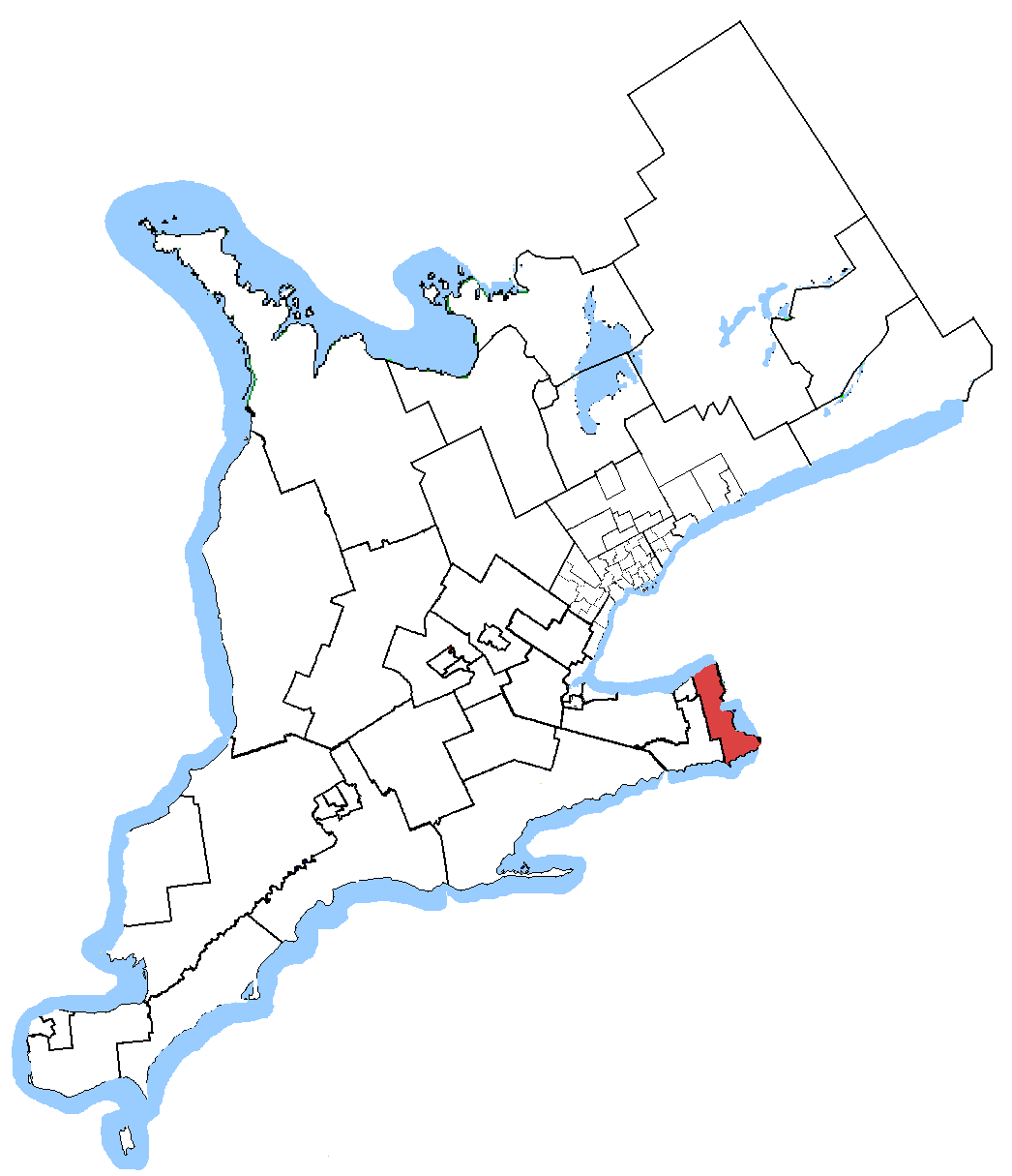 Map of the Niagara Falls electoral district. Based on Earl Andrew's maps, created by SimonP.